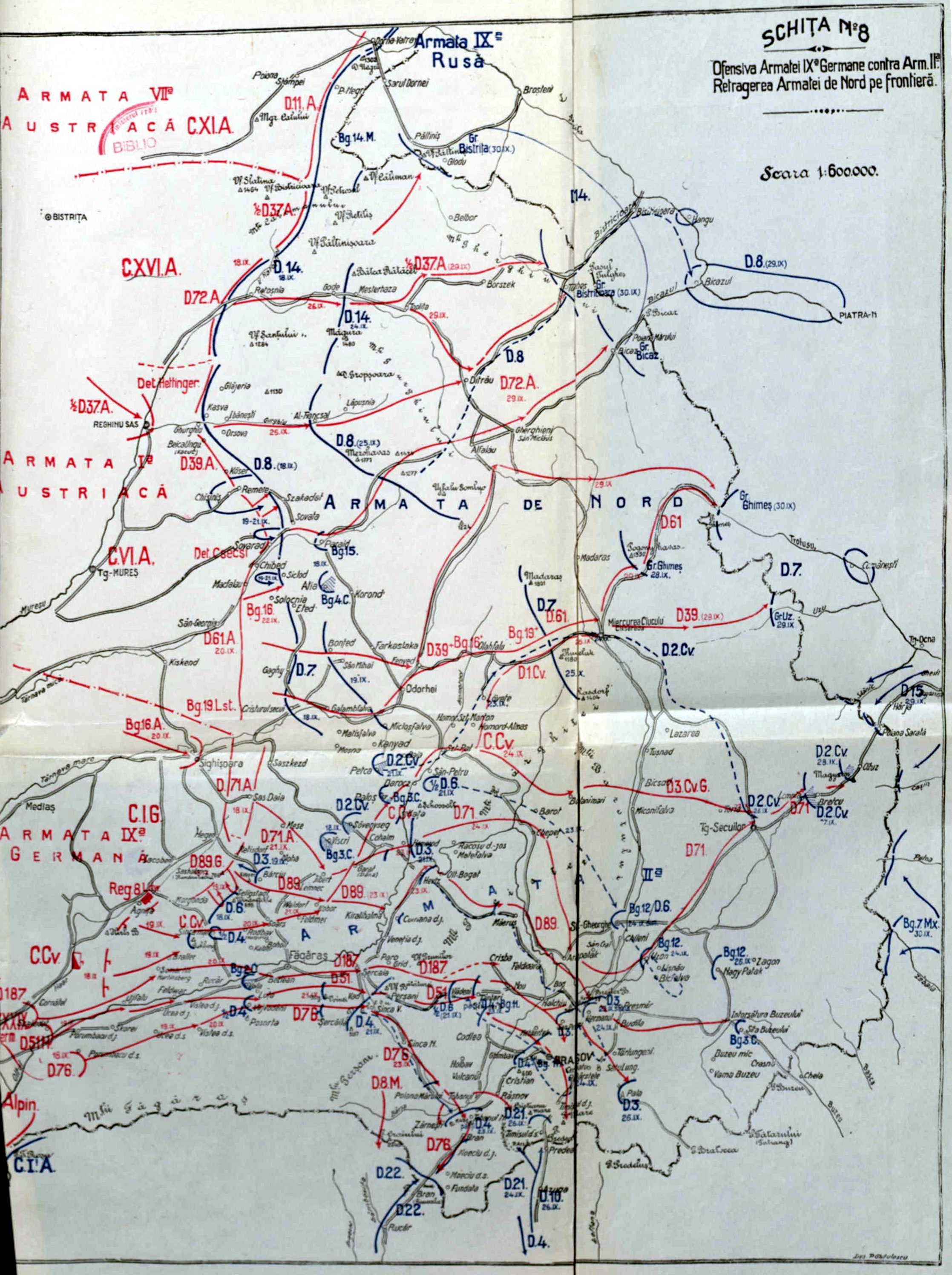 Map with the retract of the Romanian Northern Army - 1916